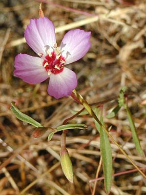 Clarkia franciscana — Presidio Clarkia. At the Presidio of San Francisco, California. Endemic to the San Francisco Bay Area of Northern California. NPS photo, no copyright.